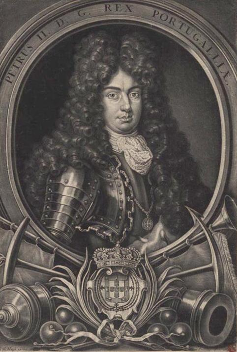 King Peter II of Portugal (1648-1706)